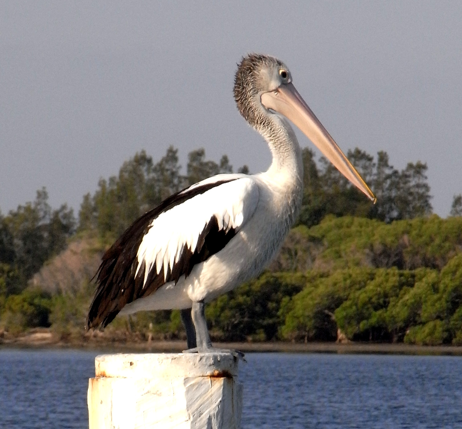 Australian Pelican (Pelecanus conspicillatus) perching on the docks of Tea Gardens, New South Wales, Australia.